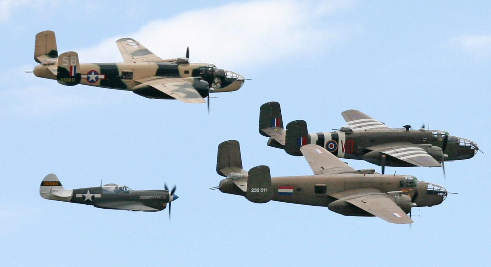 1 fighter : Curtiss P-40N Warhawk "Little Jeanne" + 3 B-25 Mitchells : B-25D-30 Mitchell 43-3318/KL161 – Vulcan Warbirds + B-25J-20 Mitchell 44-29507 – RNAF Historical Flight + B-25J-35 Mitchell 45-8811 – SDPA, at the 2009 edition of the Duxford Flying legends show.